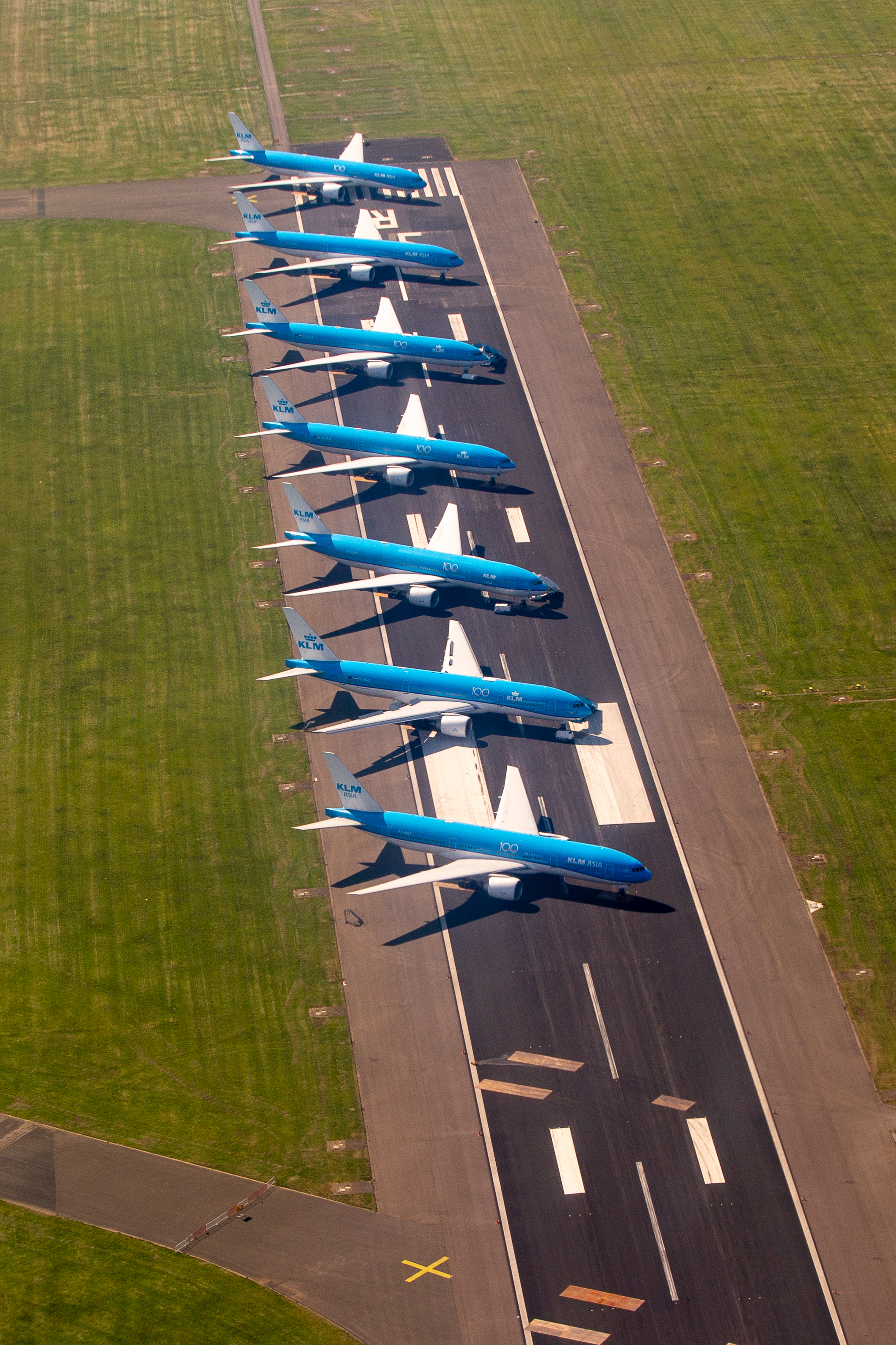 Since most flights are cancelled, and therefor many are not in the air or on smaller destination airfields, new parking places need to be created during the corona crisis.